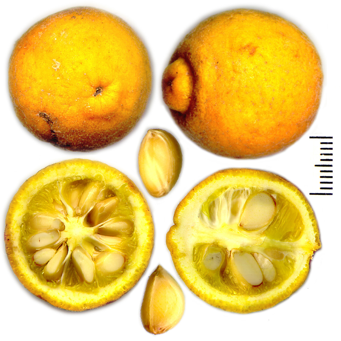 Poncirus trifoliatus fruit and seeds